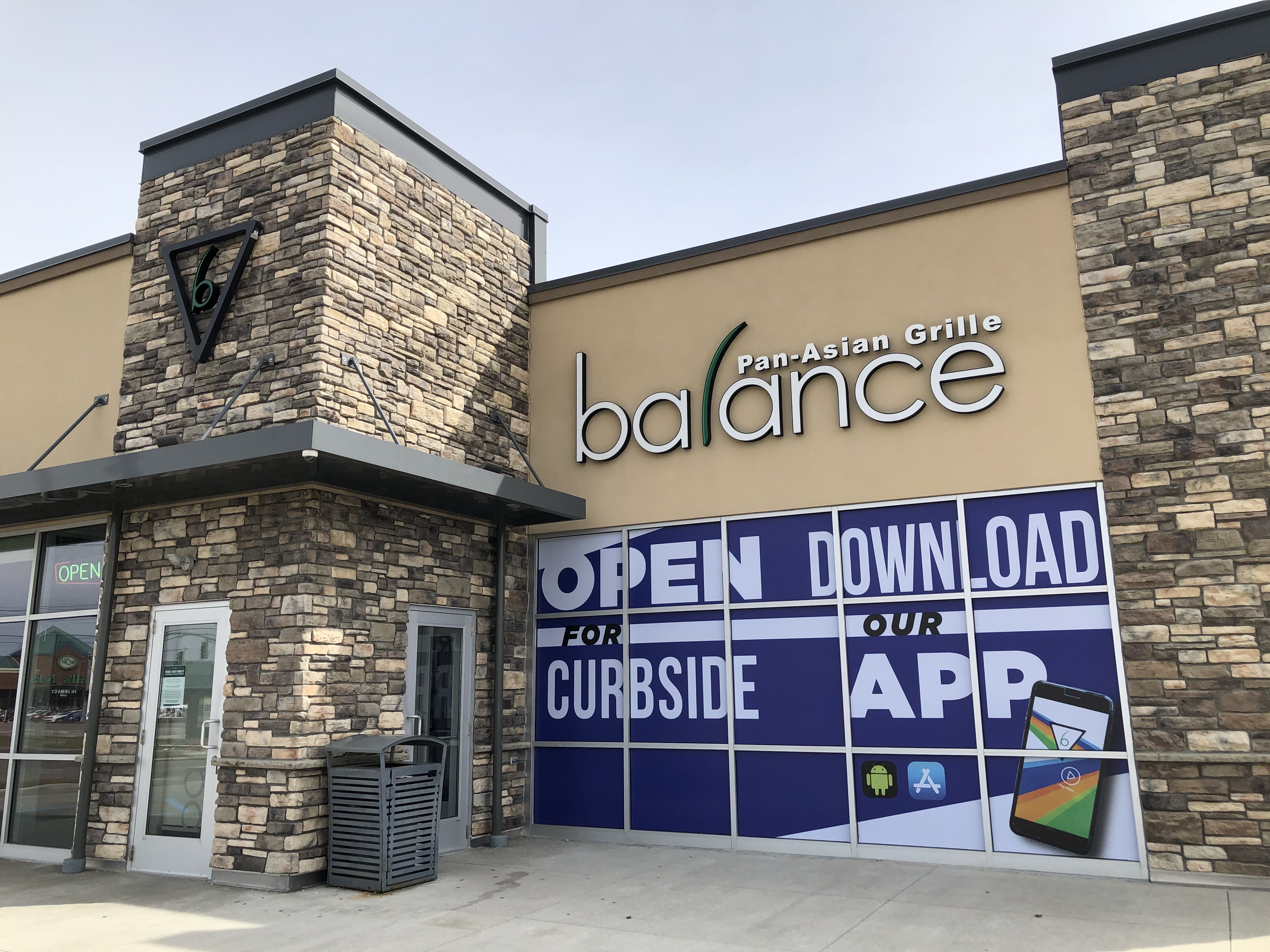 Balance Asian Grille during COVID-19, advertising takeout & curbside services. During the pandemic, dine in is not allowed. Employees delivering the food were wearing gloves.